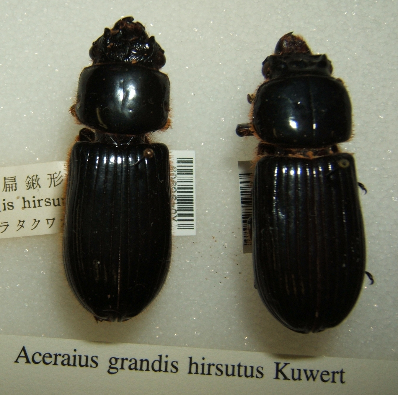 Aceraius grandis hirsutus adult taken by Shawn Hanrahan at the Texas A&M University Insect Collection in College Station, Texas.